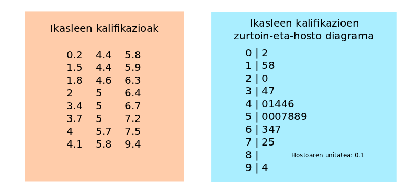 Stemplot. At left, original data.